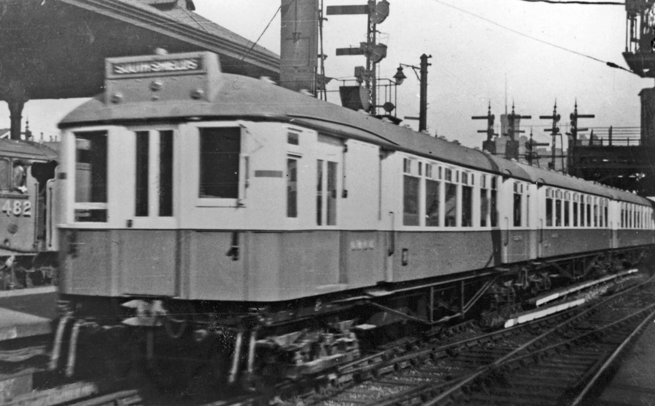 South Tyneside Electric train at Newcastle Central, 1938View NE at the west end of Central Station, Platform 11: a train for South Shields waits, made up of ex-NER/LNER third-rail electric (600v) reconditioned stock (after fire damage), which worked on the North Tyneside lines before the South Tyneside line was electrified in 1938 - shortly before this photograph. Glimpsed on the left is the cab-side of No. 4482 'Golden Eagle', one of the then new Gresley A4 Streamliners.